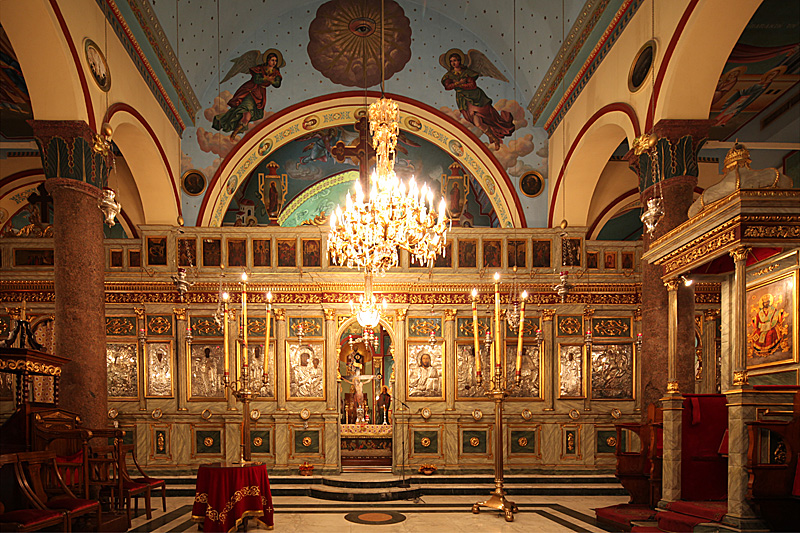 Iconostasis of the St Saba church, Alexandria, Egypt